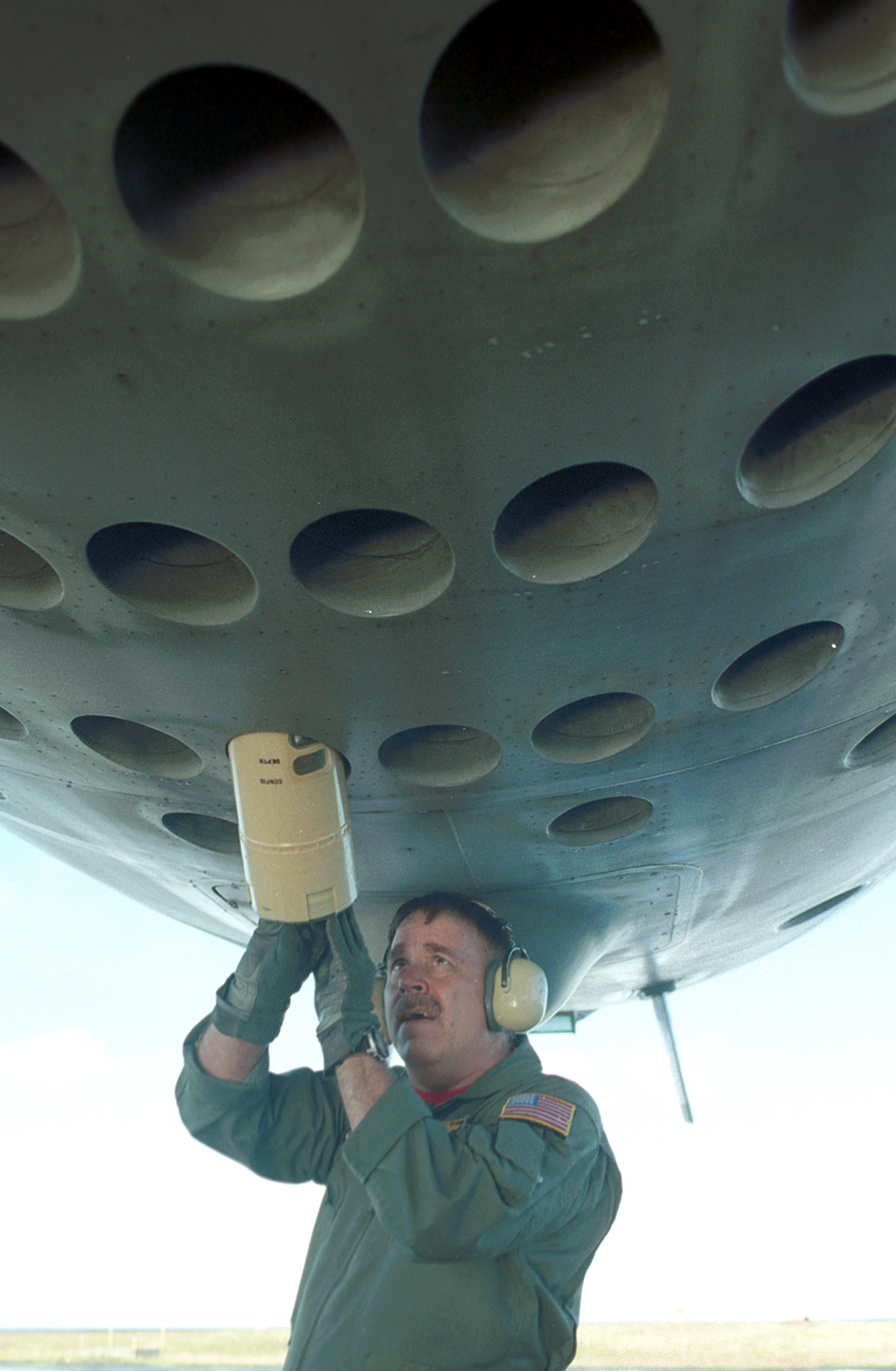 Naval Air Station Keflavik, Iceland. (Aug. 16, 2003) -- Aviation Ordnanceman 1st Class Mark Mainland, of Racine, Wis., loads an under-water surveillance sonobuoy into an ejection chute a P-3C Orion assigned to “The Liberty Bells” of Patrol Squadron Sixty Six (VP-66) during Keflavik Tactical Exchange 2003 (KEFTACEX 03). The sonobuoys act as detection devices that relay an array of data regarding submarines that are being tracked by the aircraft. Seven countries are participating in the annual anti-submarine warfare exercise. VP-66 from Naval Air Station Willow Grove, Penn., is the only squadron comprised entirely of Naval Reservists that are participating in KEFTACEX 03. U.S. Navy photo by Journalist 2nd Class Mark O’Donald. (RELEASED)